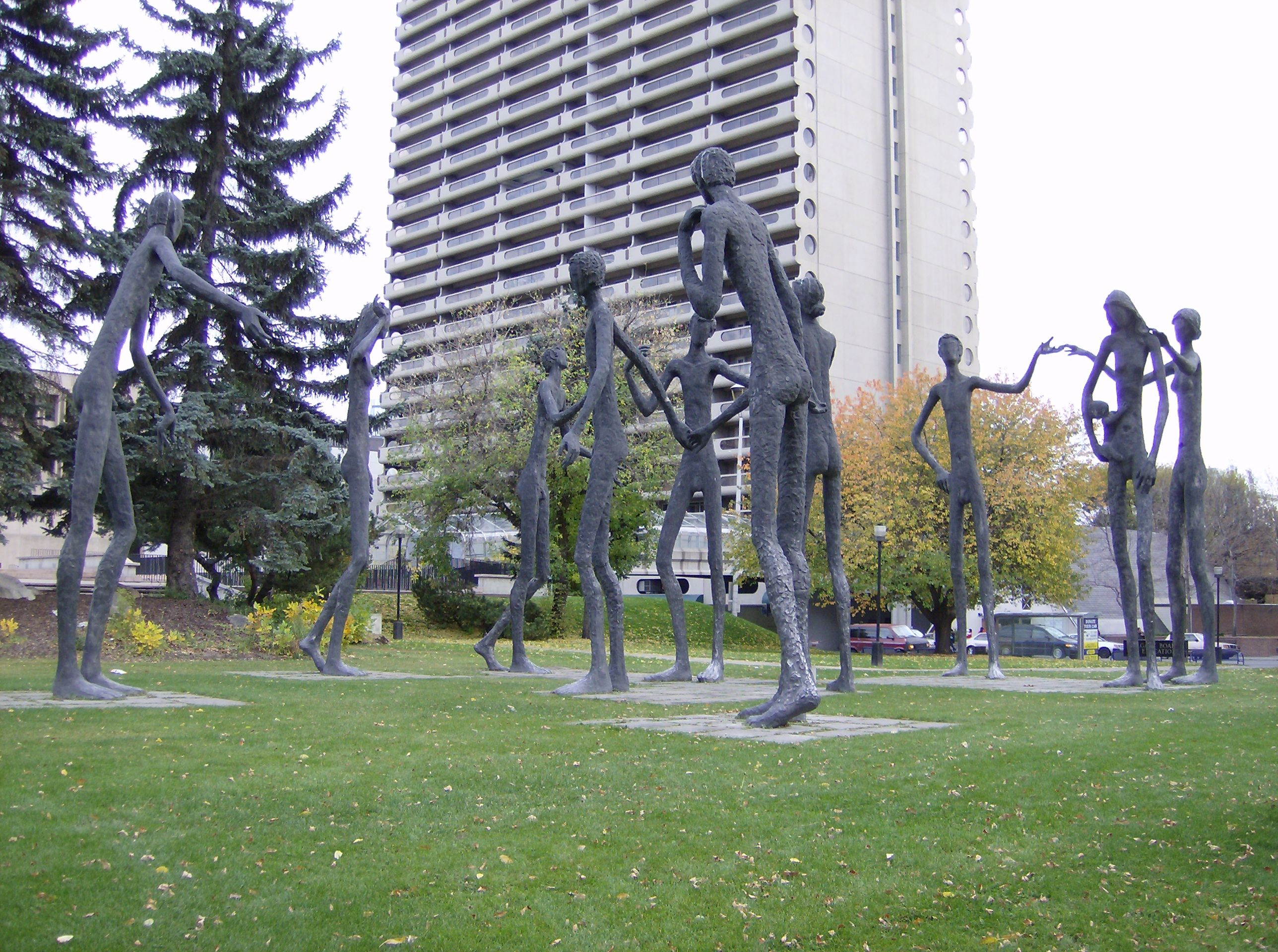 This statue (or set of statues) is called "The Family of Man". It is outside Calgary Board of Education offices (Calgary Education Centre). The address is 515 Macleod Trail S.E., Calgary, Alberta, Canada. These statues were first built by Mario Hubert Armengol for Britain's Pavilion at Expo 67 in Montreal. The statues are 21 feet tall. The statues were purchased by Maxwell Cummings and Sons, who then donated them to the CBE. A picture of the plaque for the statue is Image:Family of Man Plaque 1.jpg.